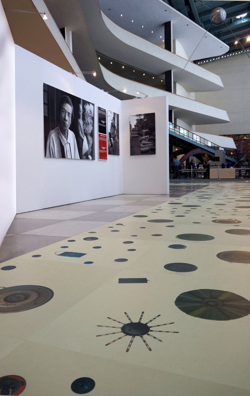 Exhibition "for a Mine-Free World -20 years of the international campaign to Ban Landmines" in the Main Gallery United Nations New York of zizka´s concept art installation "virtual minefield"